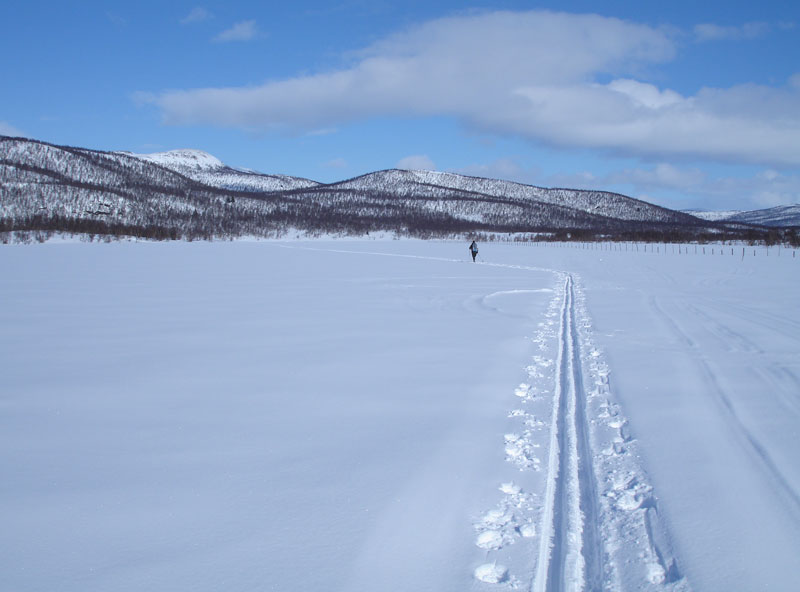 Lake Diebrenjaevrie (also written Diebrenjaure) in Vilhelmina municipality in northern Sweden.